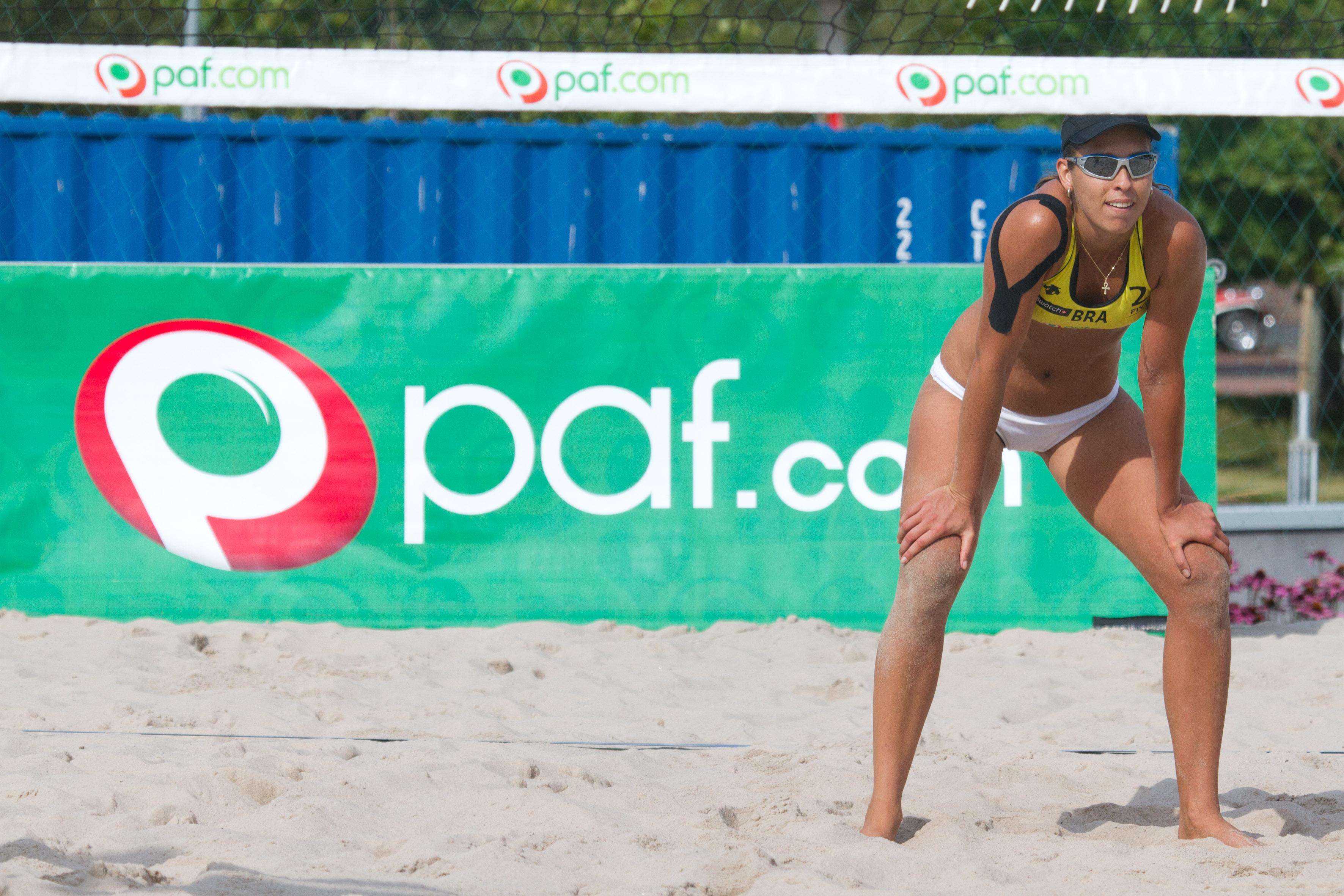 Tsimbalova and Mashkova of Kazakhstan play Maria Clara and Liliane Maestrini of Brazil on August 30 2012 at the Paf Open in Mariehamn, Åland, Finland. Photograph: Rob Watkins/ This picture is free to use as long as it it credited: Rob Watkins/